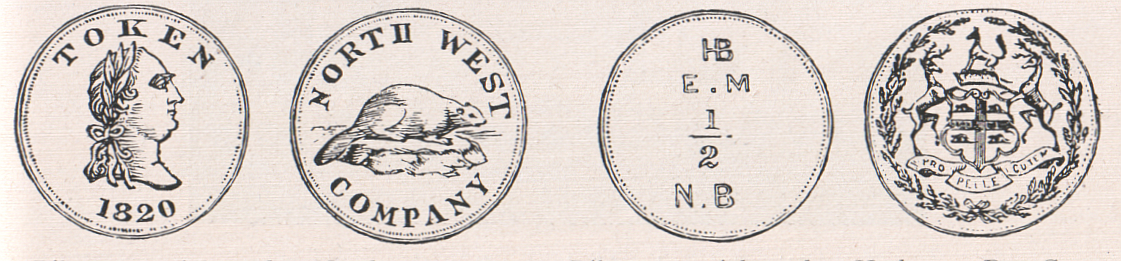 Emil Brass (German fur trader, consul, *1856; +1938): Aus dem Reiche der Pelze (From the Empire of Furs), 2nd edition. Publisher: Neue Pelzwaren-Zeitung und Kürschner-Zeitung, Berlin 1925. 859 pages, cloth cover. 17,5 x 26 cm.